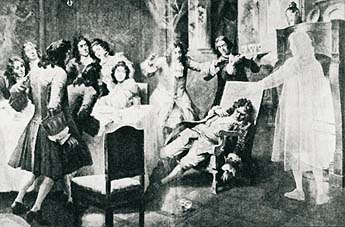 Death of Lomikar. Illustration for the book "Old bohemic tales" (Staré pověsti české)